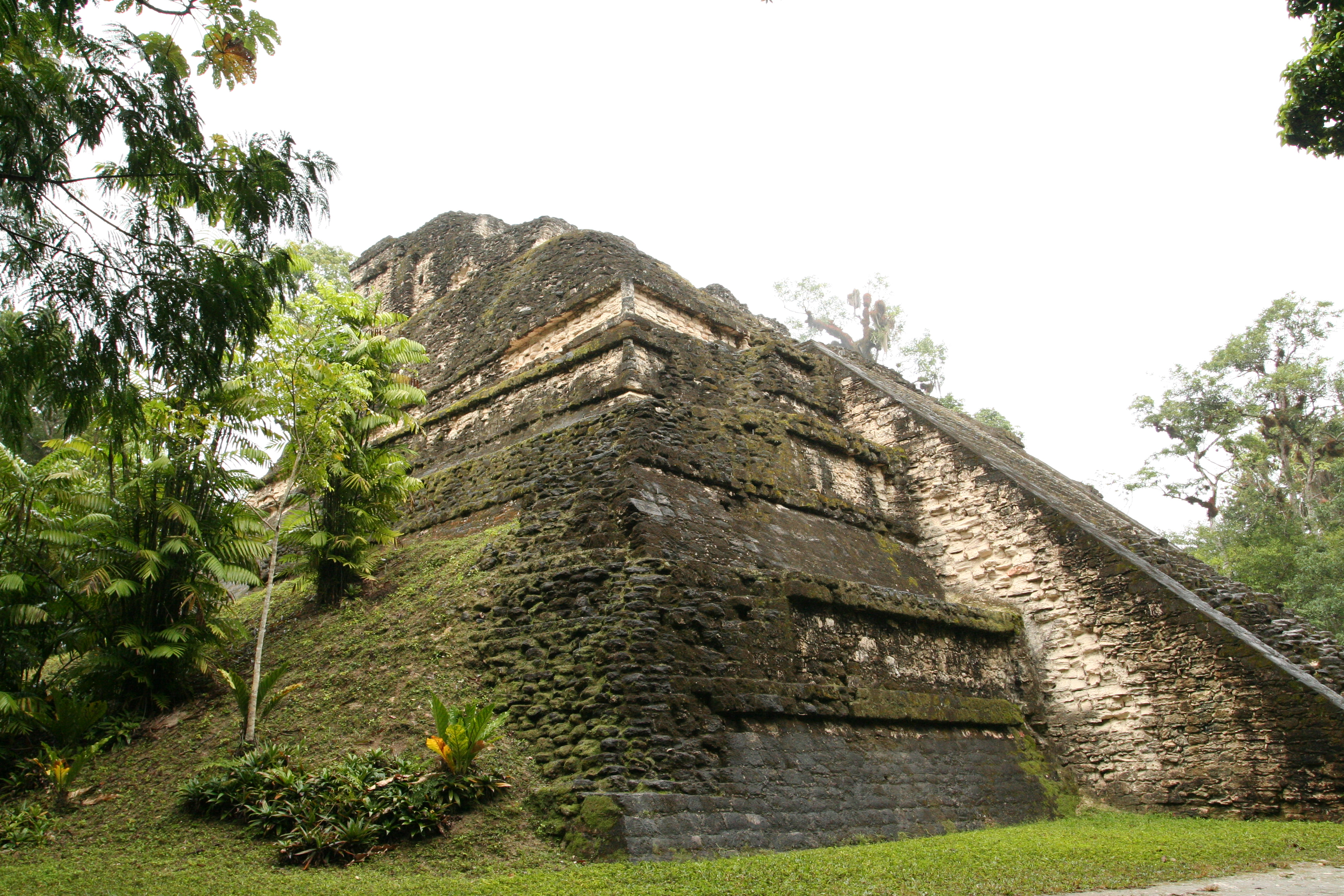 Pyramid 5C-49 in the Lost World complex, Tikal, Peten, Guatemala. View from the southwest.